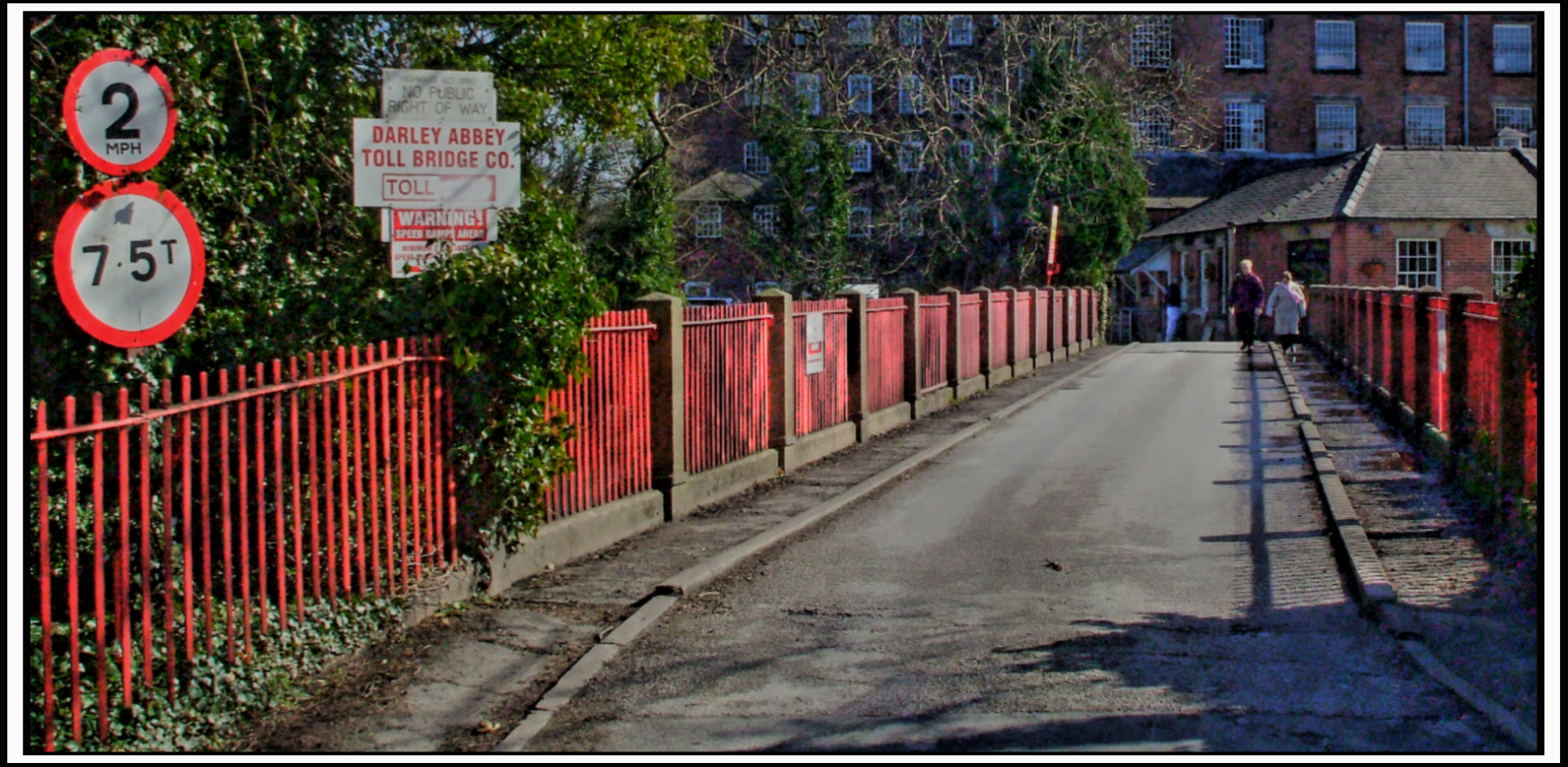 Darley Abbey Toll Bridge, Derbyshire